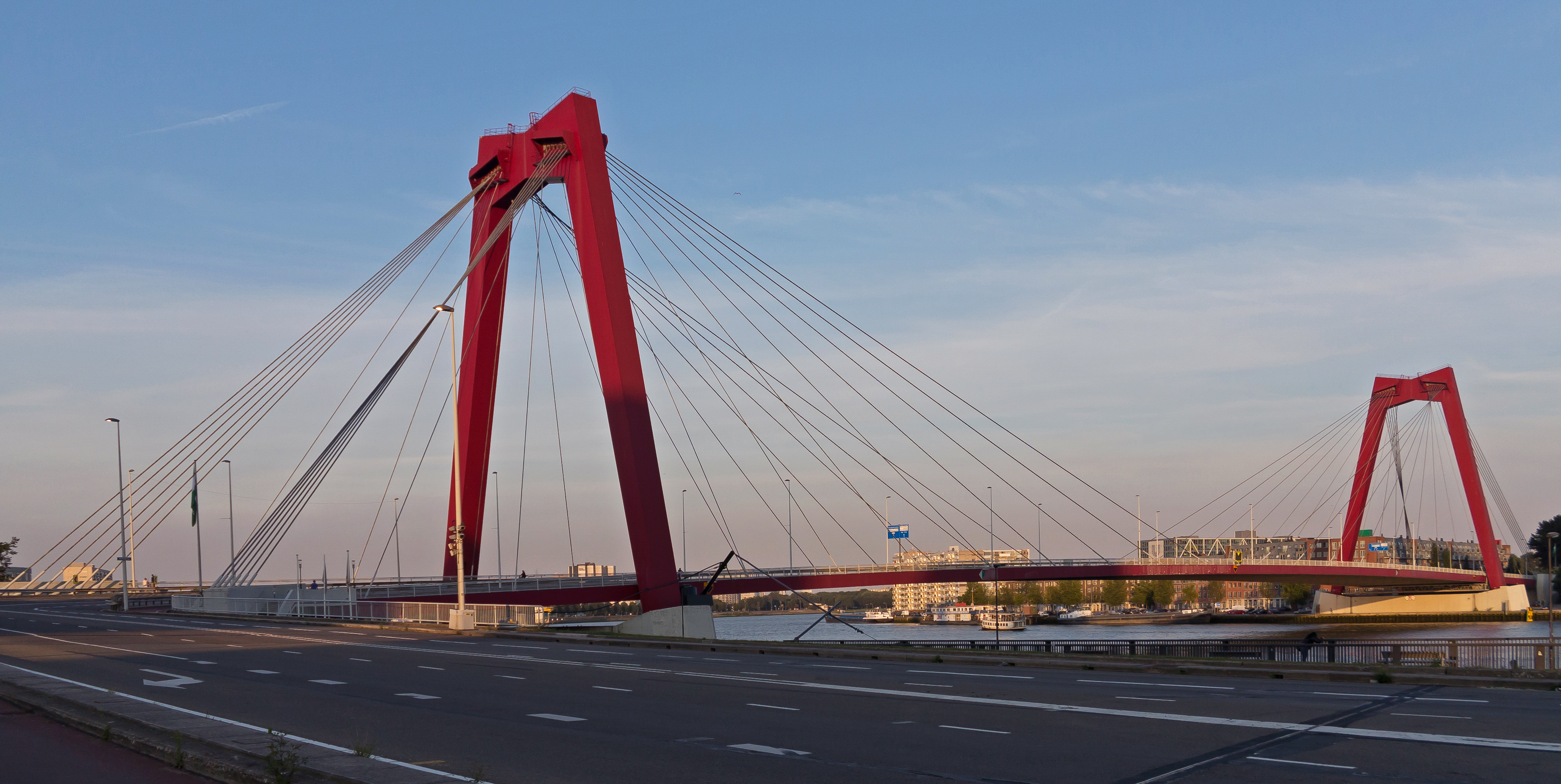 Rotterdam, bridge: de Willemsbrug